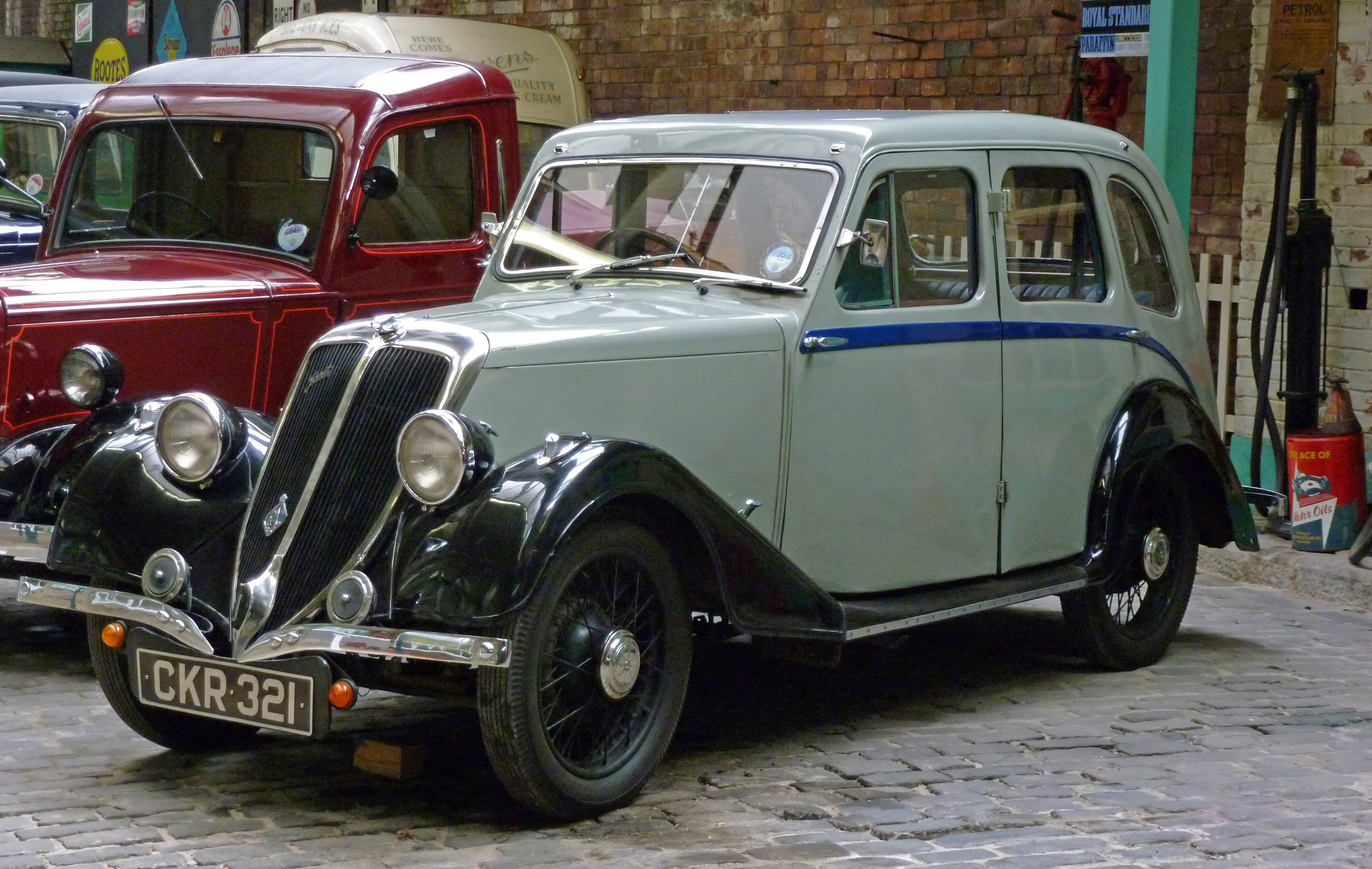 Bradford Industrial Museum, Eccleshill Jowett Jason de luxe 4-cylinder (horizontally opposed) 10 hp produced October 1935 to May 1936 (105 examples)de luxe specification included twin carburetters, freewheel and centrifugal clutch, sunshine roof and opening quarterlights.